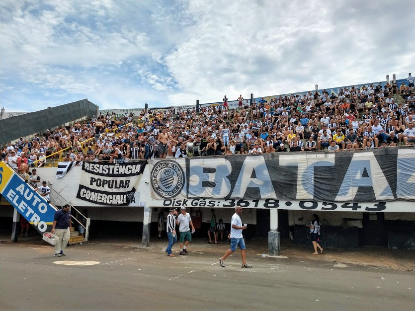 Barra Brava - Alvinegro Battalion of the Commercial FC of Ribeirão Preto, State of São Paulo.